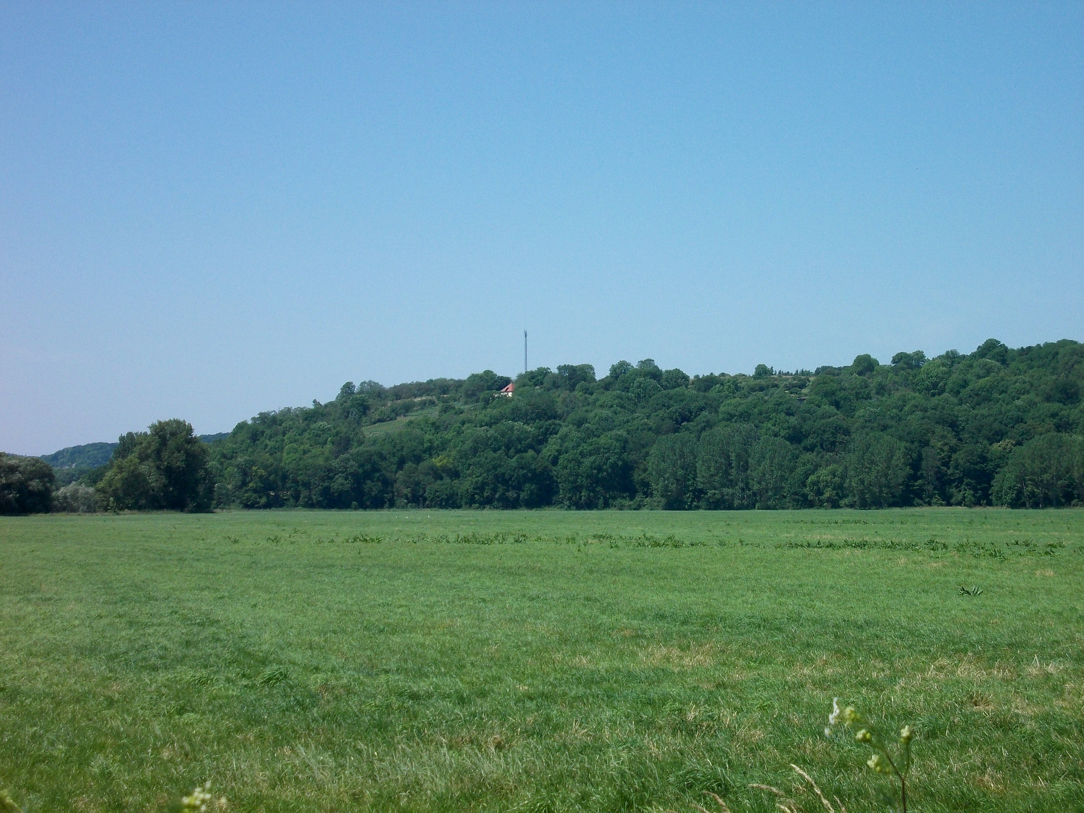 Igelsberg hill in the Saaleaue nature reserve near Goseck, view from the Saale valley near Lobitzsch